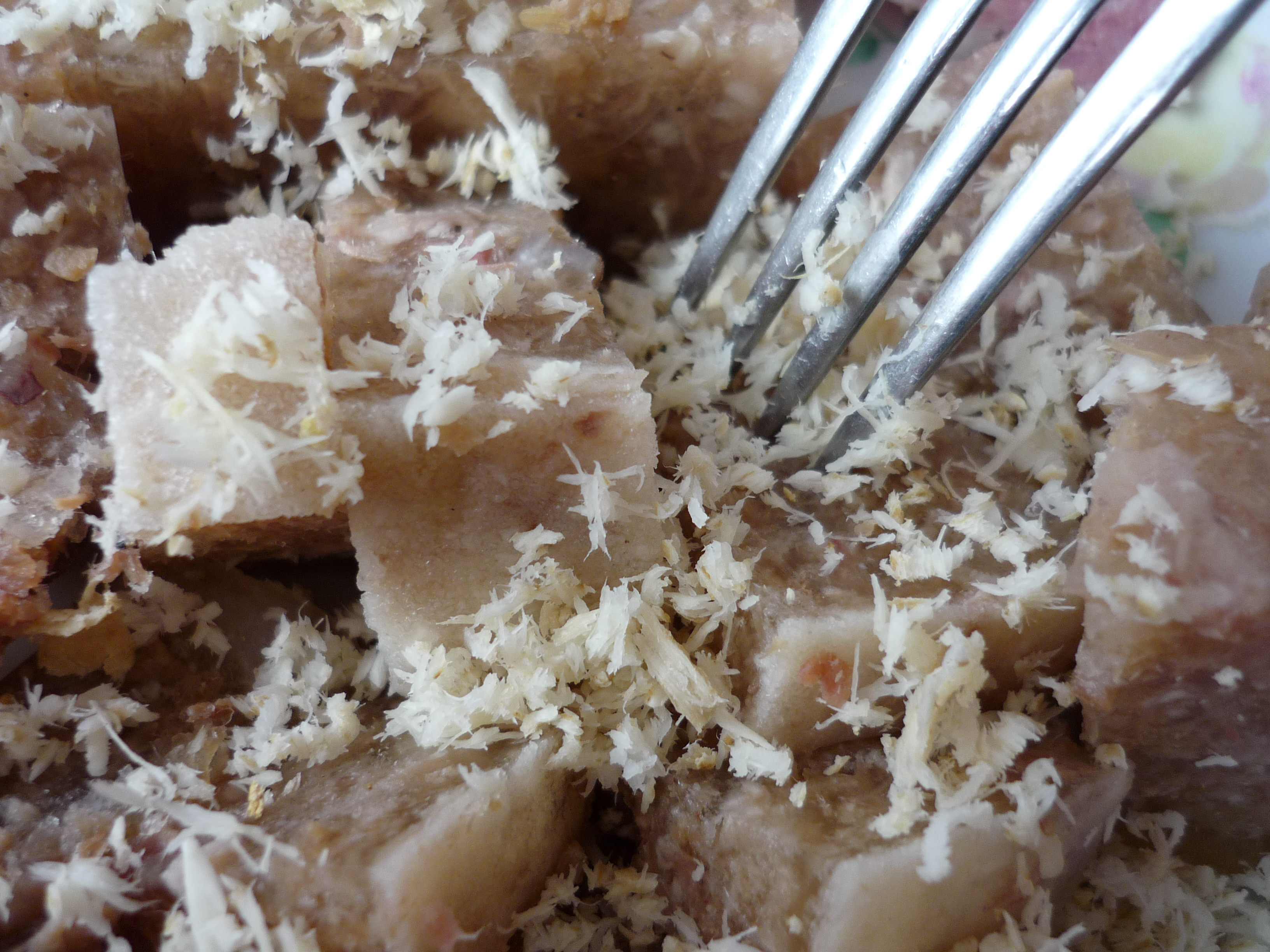 Aspics with grated horseradish root